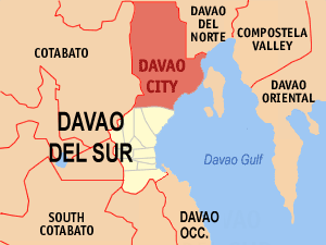 Map of the Davao del Sur showing the location of Davao City